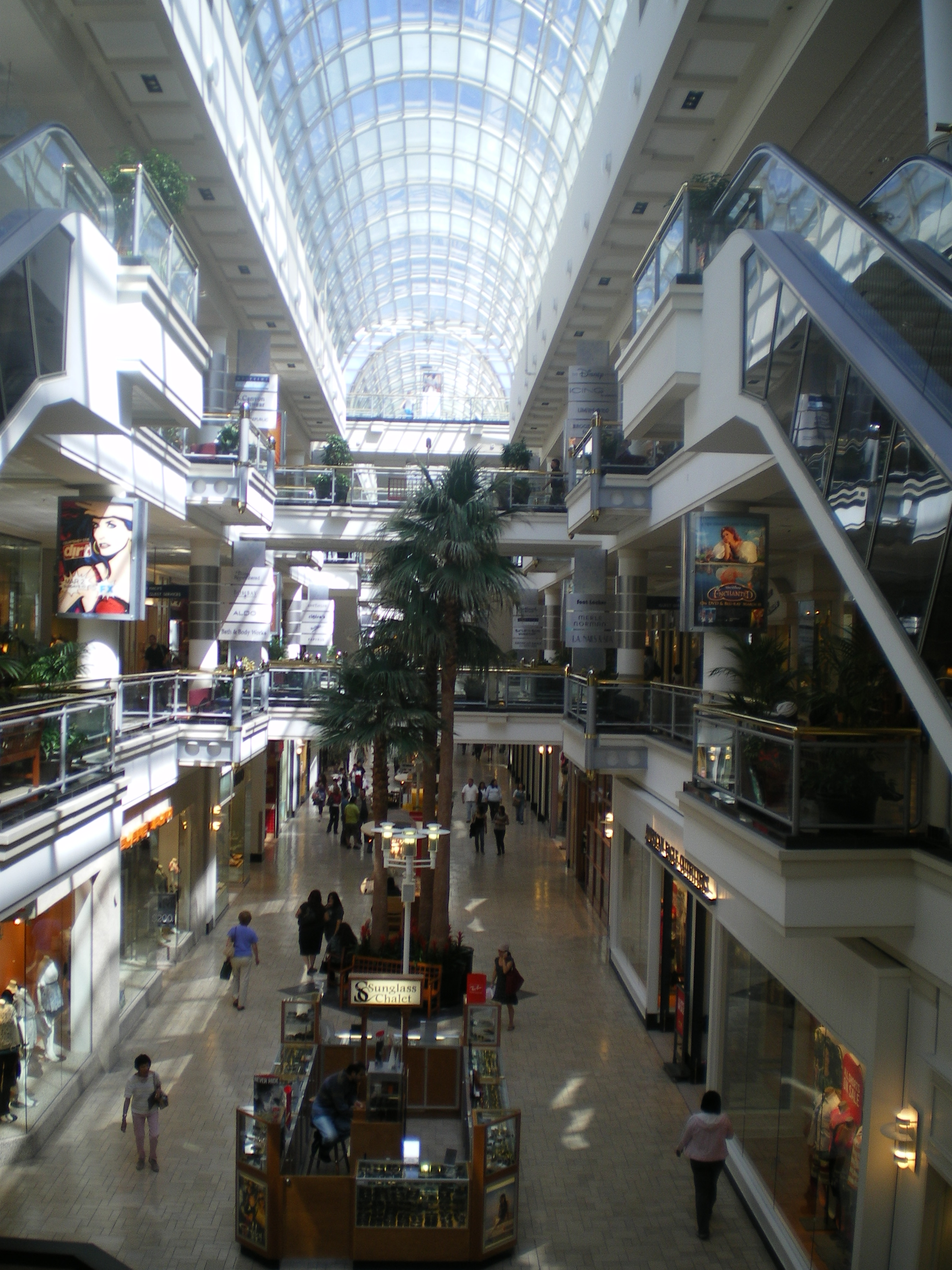 Westside Pavilion Interior 2008, Los Angeles, California Westside Pavilion, Pico & Westwood, Los Angeles, CA